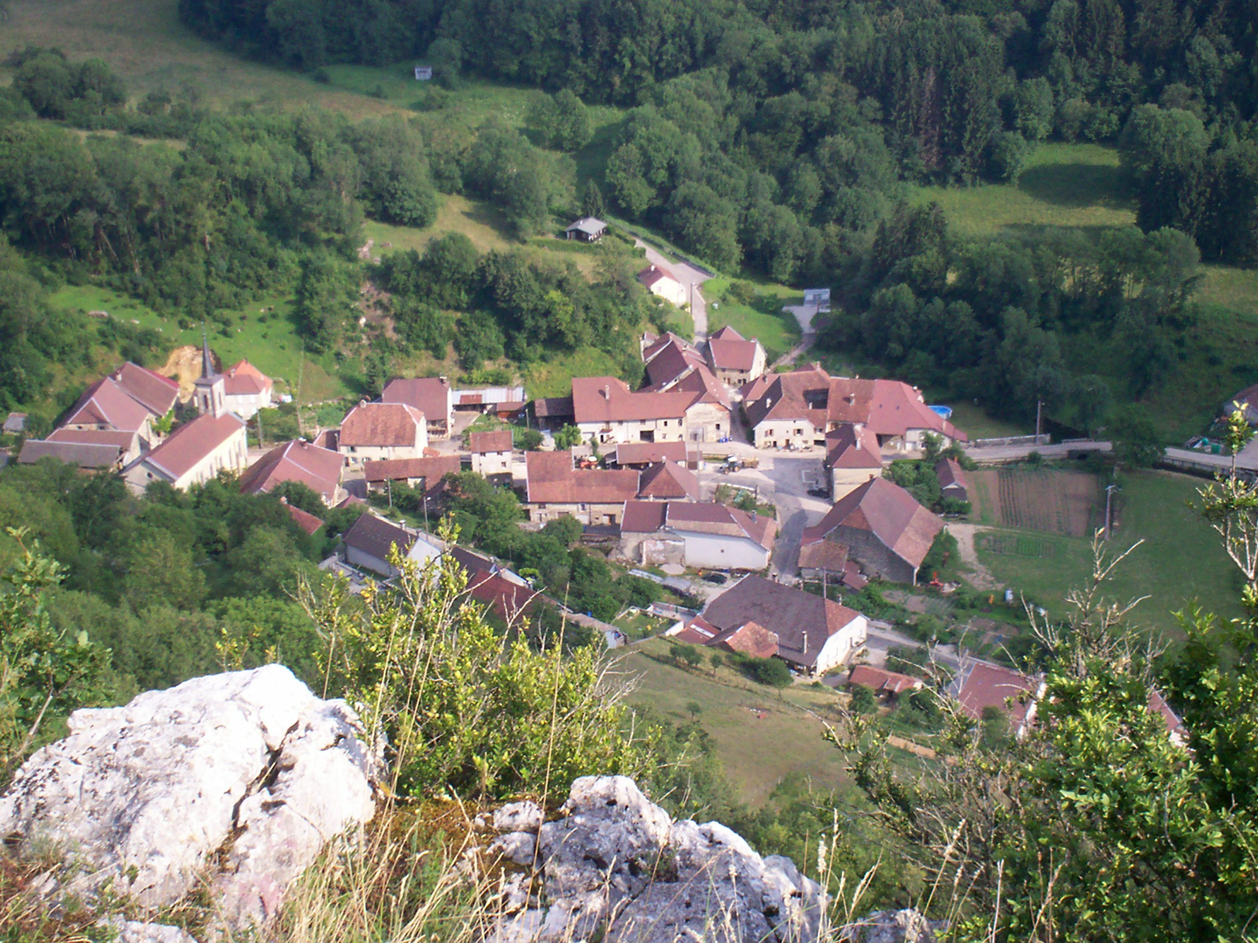 View of Pretin, a little town in France (Jura).